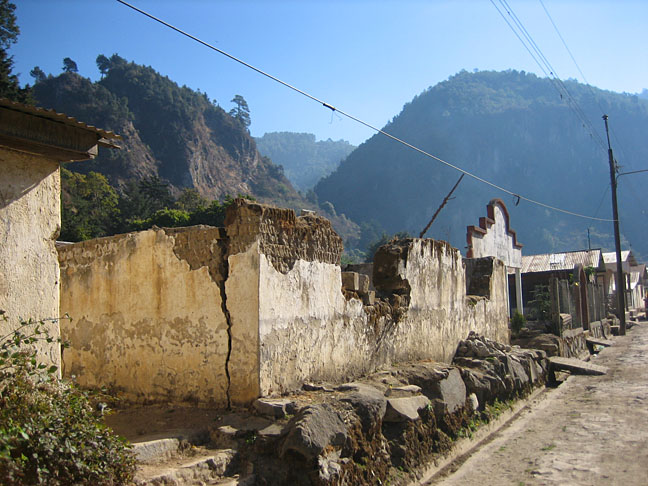 Ruins in the old town of Santa Catarina Ixtahuacan in the Sierra Madre range in Guatemala.